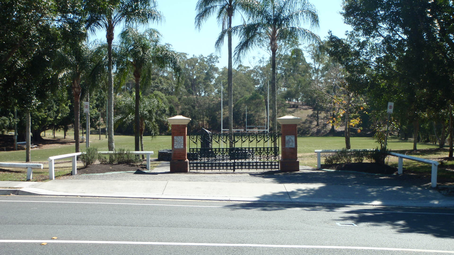 Toowong War Memorial - entrance in Sylvan Road, opposite Bennett Street, Toowong, Queensland